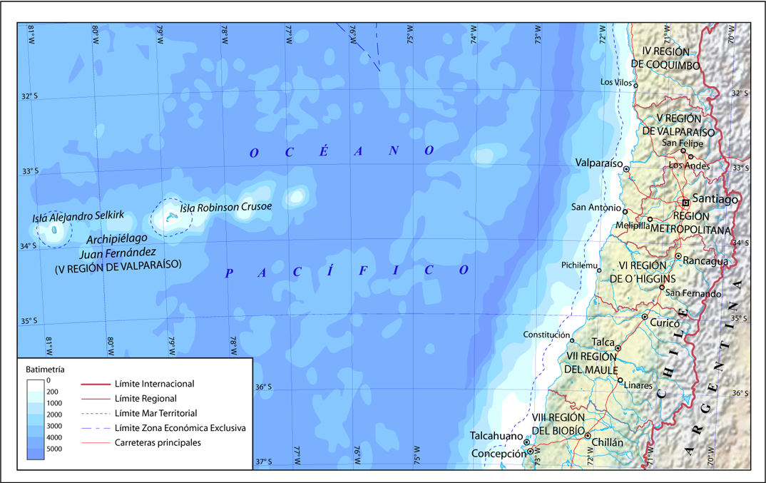 Map showing Juan Fernández to continental Chile. Bathymetric contours and continental colours from Natural Earth data. Main cities and roads. Equidistant Conic Projection A, standard parallel -33.7, central meridian -75